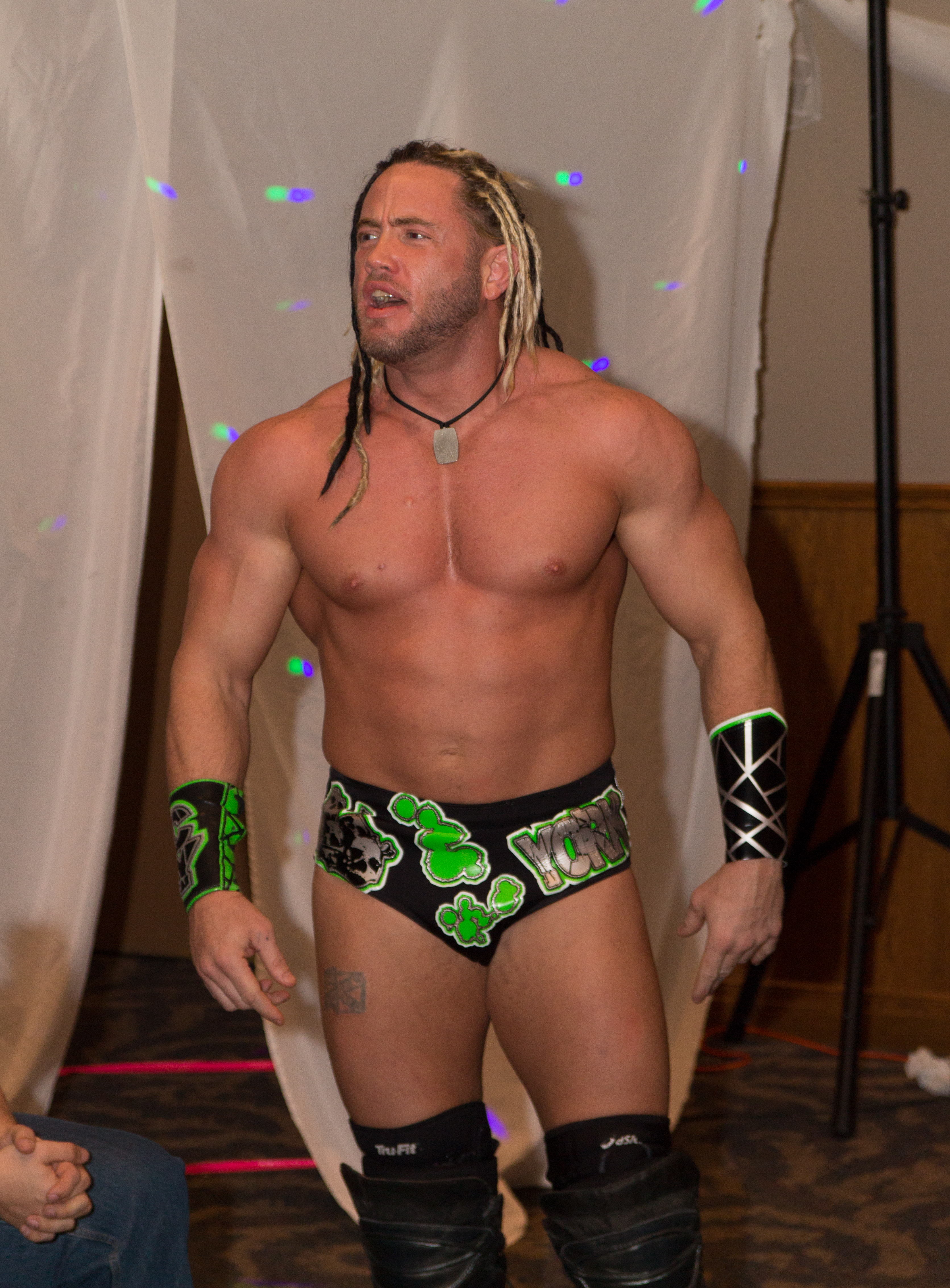 Christian York making his entrance at the Hardcore Roadtrip's Born 2B Wired show in London, ON